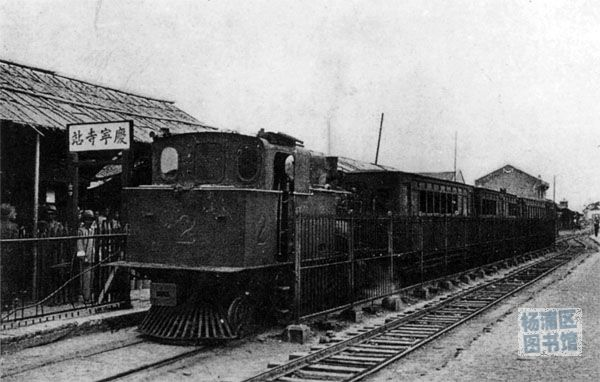 Qingningsi Station 中文（中国大陆）: 庆宁寺站，行驶于浦东之上川交通公司小火车